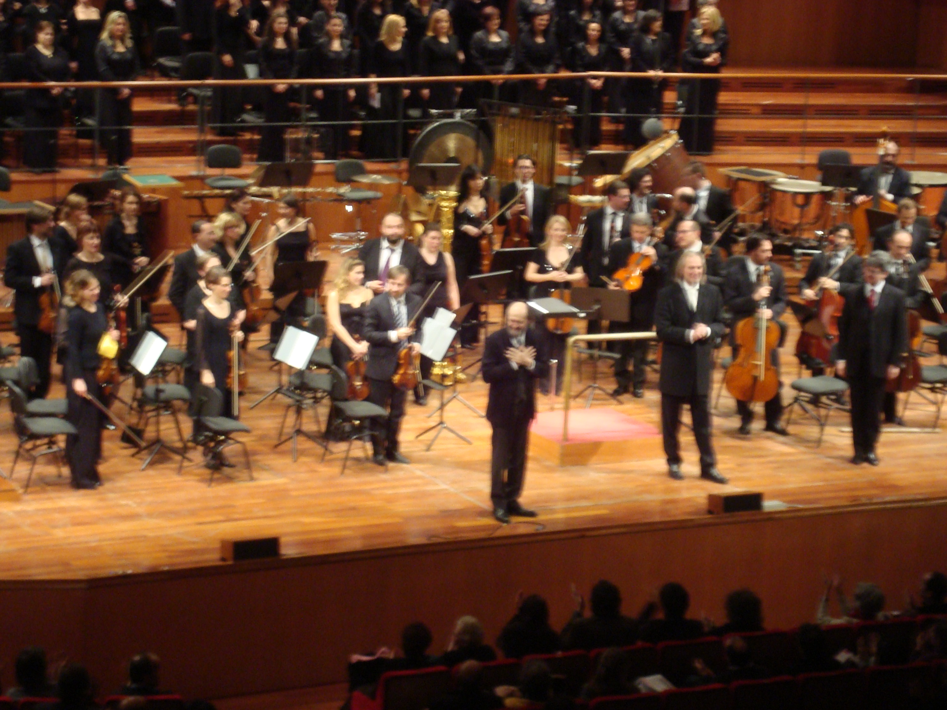 Arvo Pärt (center) and Tonu Kaljuste (on his left) at the Auditorium Parco della Musica in Rome on Jan 27th 2010